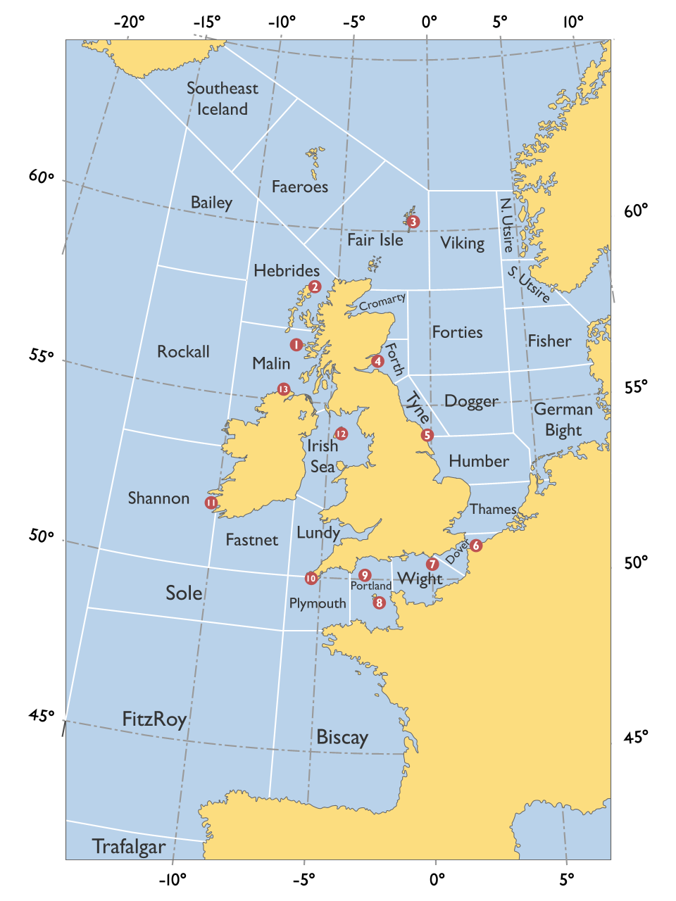 Annotated map showing the zones used by the Shipping Forecast. Redrawn from Image:ShippingZones2.JPG Coastal Weather Stations: Tiree Stornoway Lerwick Fife Ness Bridlington Sandettie Light Vessel Automatic Greenwich Light Vessel Automatic Jersey Channel Light Vessel Automatic Scilly Automatic Valentia Ronaldsway Malin Head